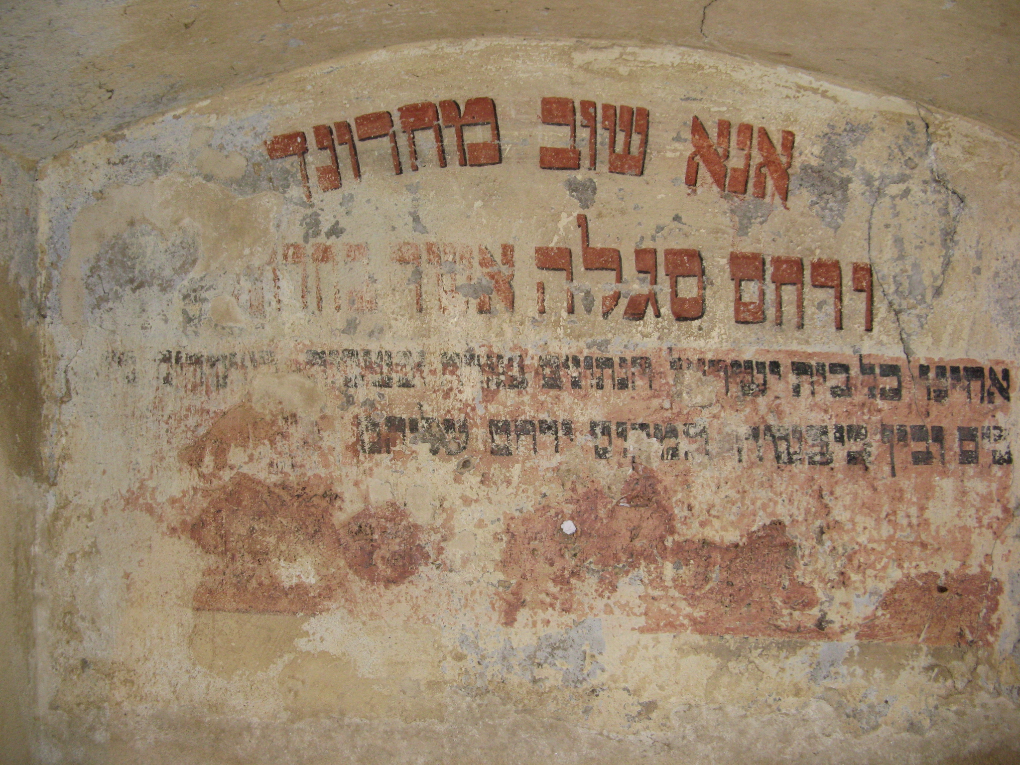 Wall of hidden Synagogue in Terezinstat